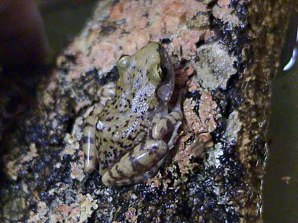 Cliff Chirping Frog, Eleutherodactylus marnockii from Austin, Texas, USA